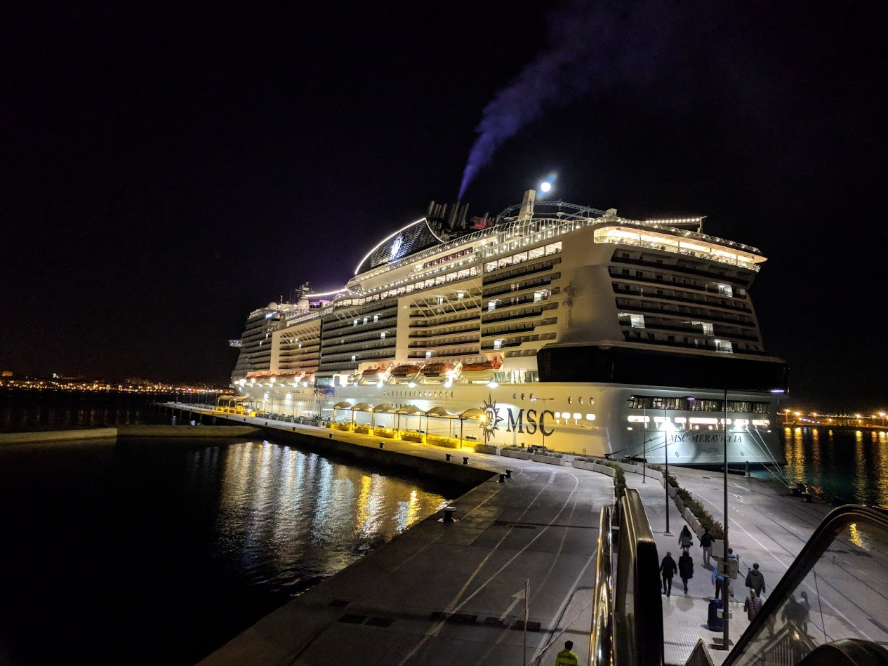 MSC Meraviglia preparing to depart Palma, Majorca in 2018